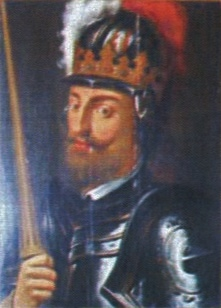 Peter I of Portugal